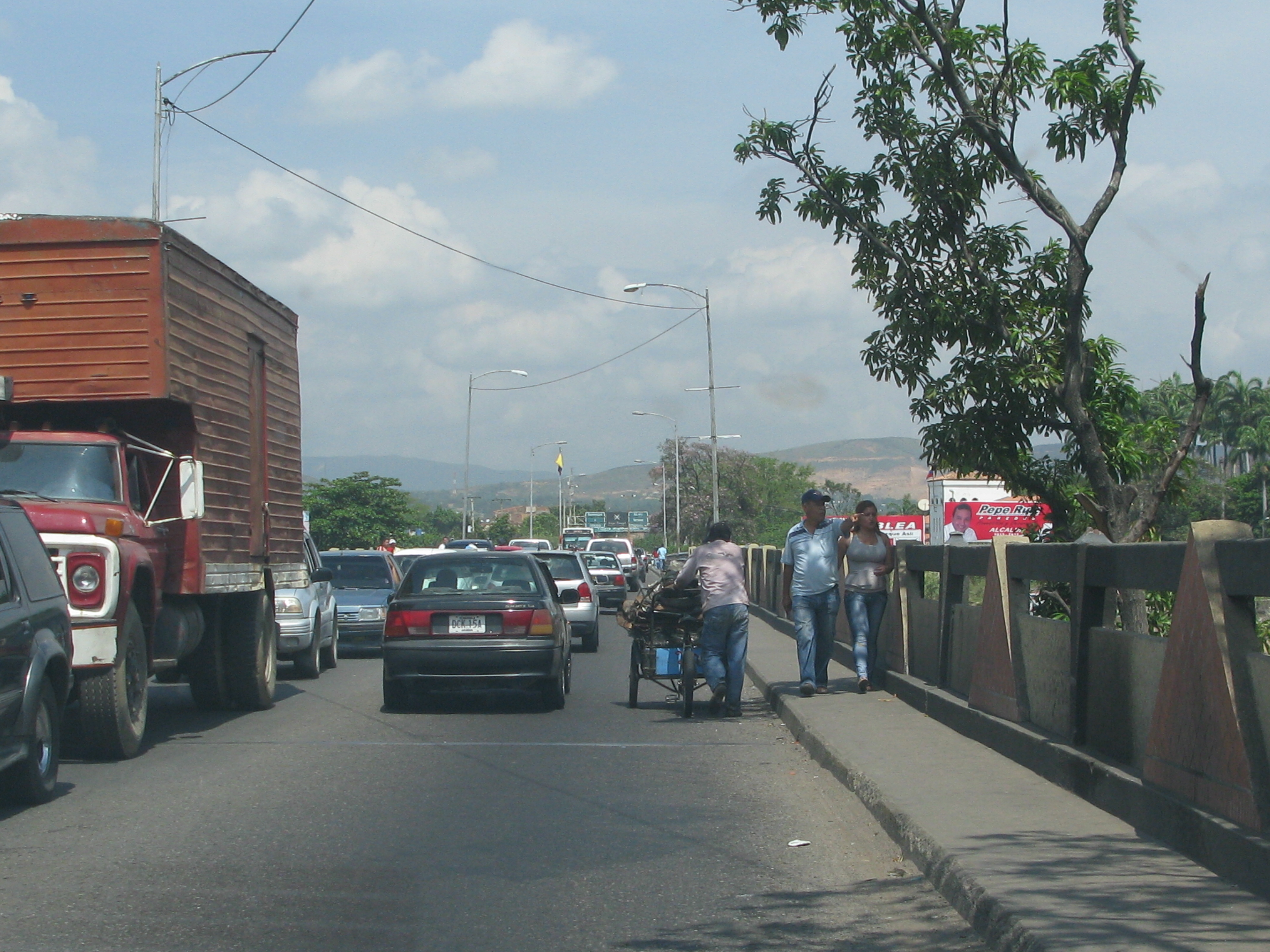 View of Simón Bolívar International Bridge when leaving Venezuela in order to enter to Colombia.